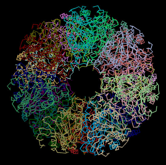 The external ring of a proteasome